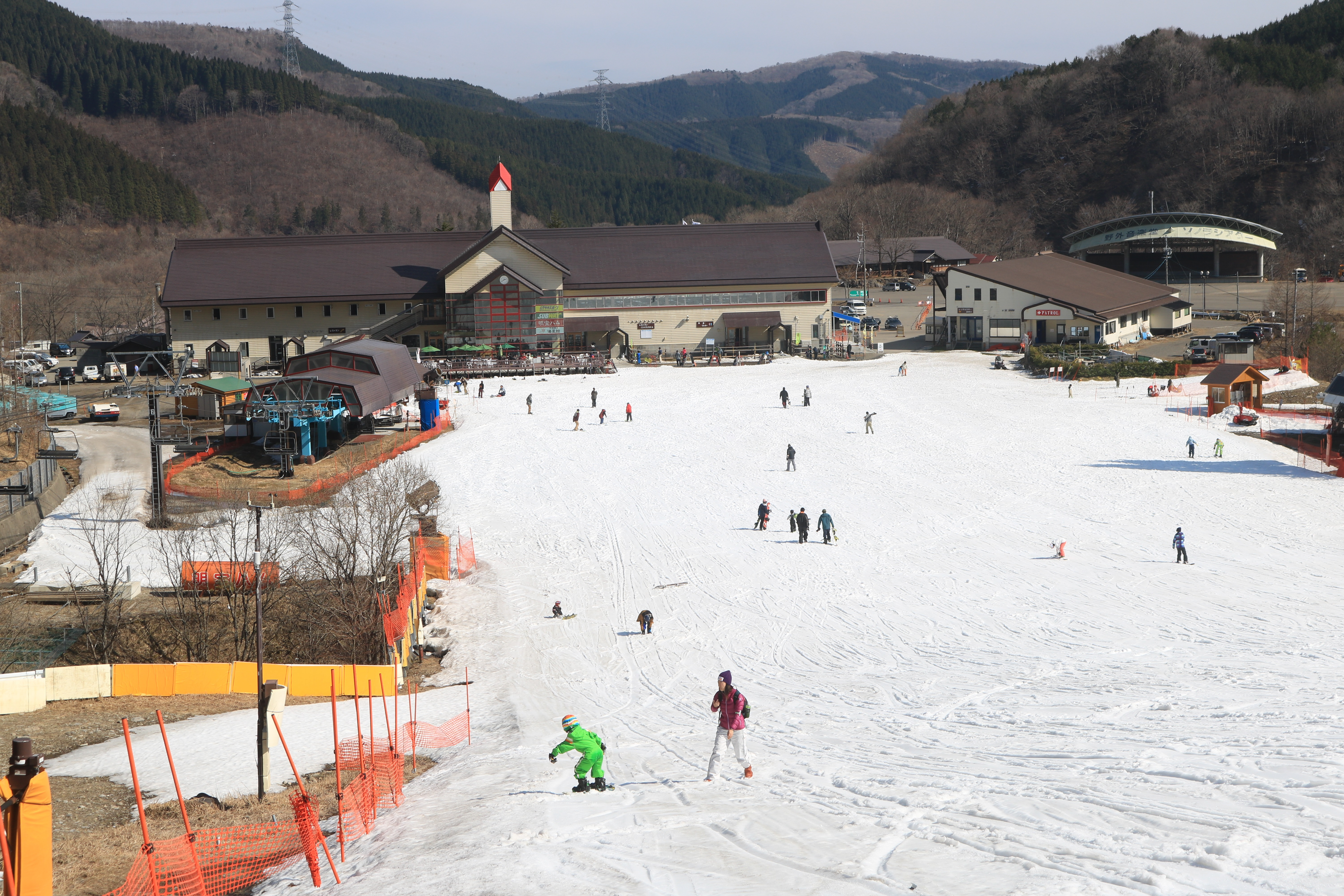 Meiho Snow Resort in Gujo, Gifu Prefecture, Japan.